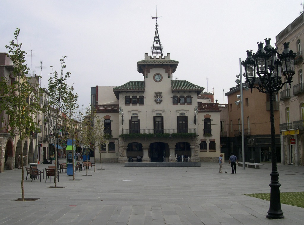 Council of Sant Celoni, in Catalonia